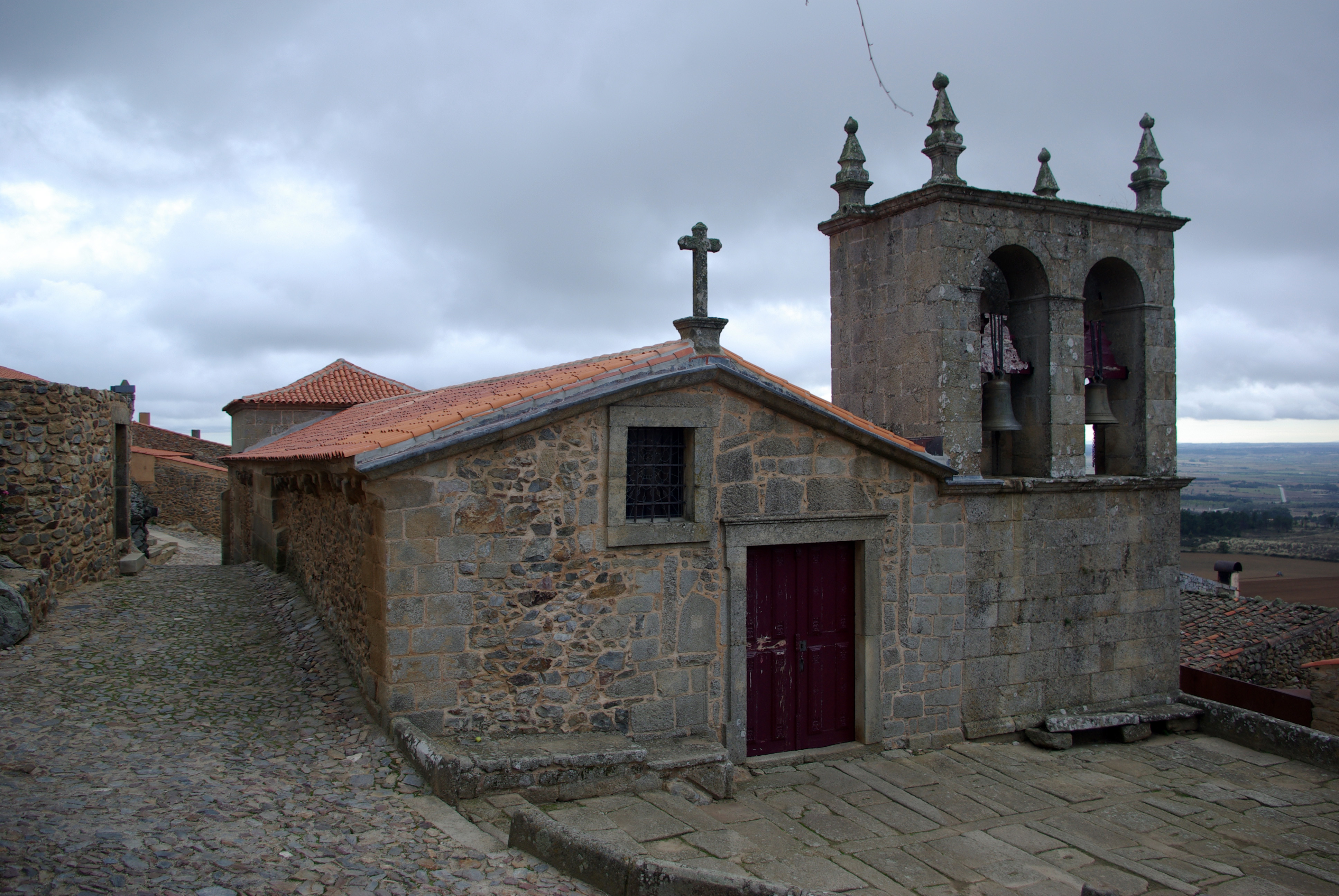 Church of Our Lady of Rocamador in Castelo Rodrigo (Guarda, Portugal).